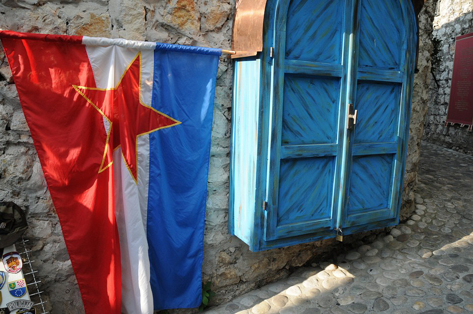 Mostar merchandise